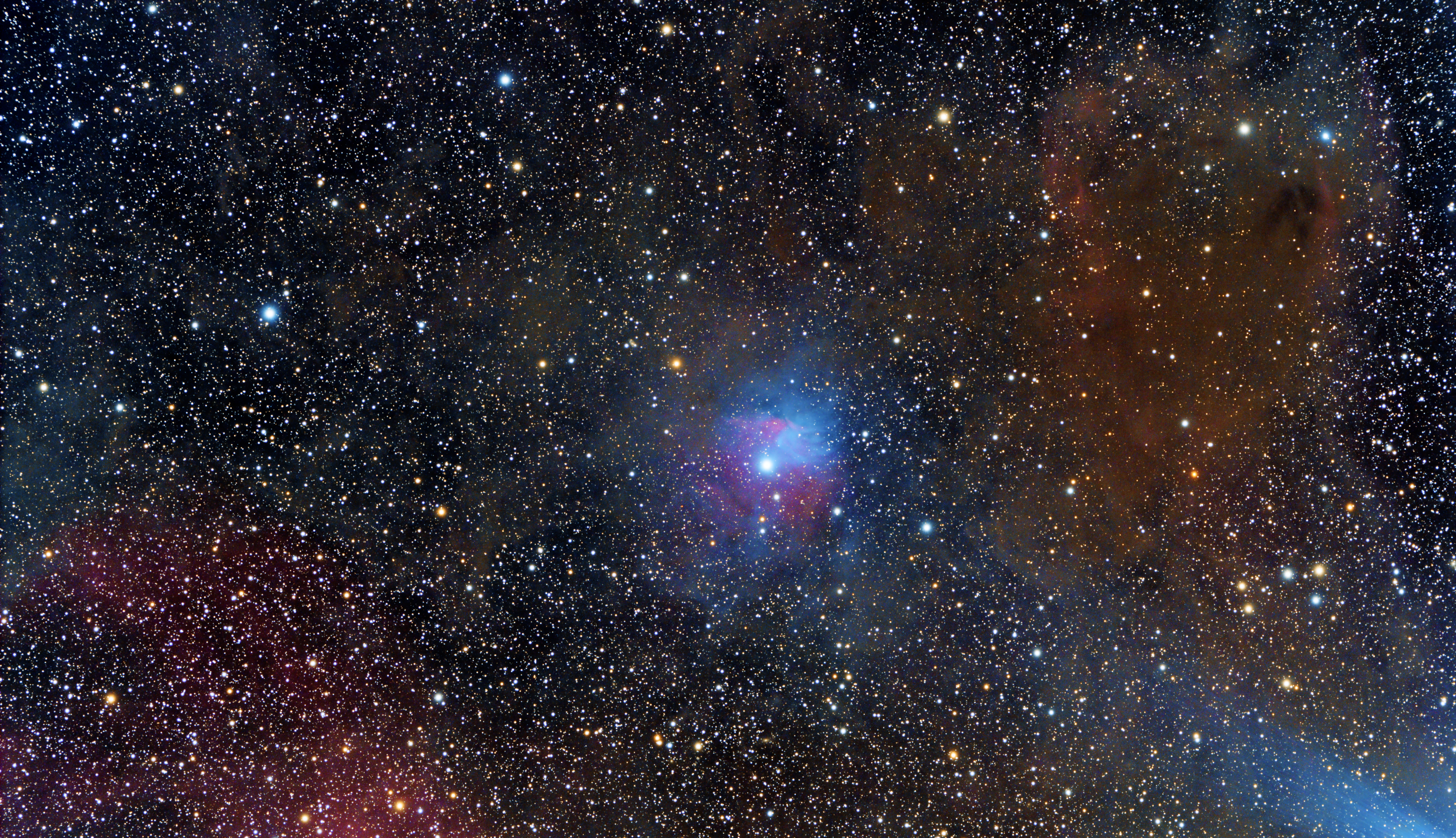 The Raspberry nebula is in the center.( Sh2-263 is the red emission nebula and vdB38 is the blue reflection nebula.) The central star is HD 34989. To the right is Sh2-265 and lower left shows a section of the Lambda Orionis ring Sh2-264. The blue light from the star Bellatrix "shines" from the lower right. Image dates: 24,25,26,27 and 28 december 2016 Esprit 100 triplet APO with matching flattener/ Canon 6Da/ Optolong L filter/ 10 micron GM2000 HPS II in Scopedome 2M 201x240 seconds iso1600. Stacked in DeepSkyStacker with 34 Flats, 27 Darks and 150 Bias frames. This is enough data so i could use only basic processing in PI: DBE, HistogramTransformation, a little SCNR to remove green and a little curves adjustment. So no BackgroundNeutralisation, no ColorCorrection, no Noise reduction etc.